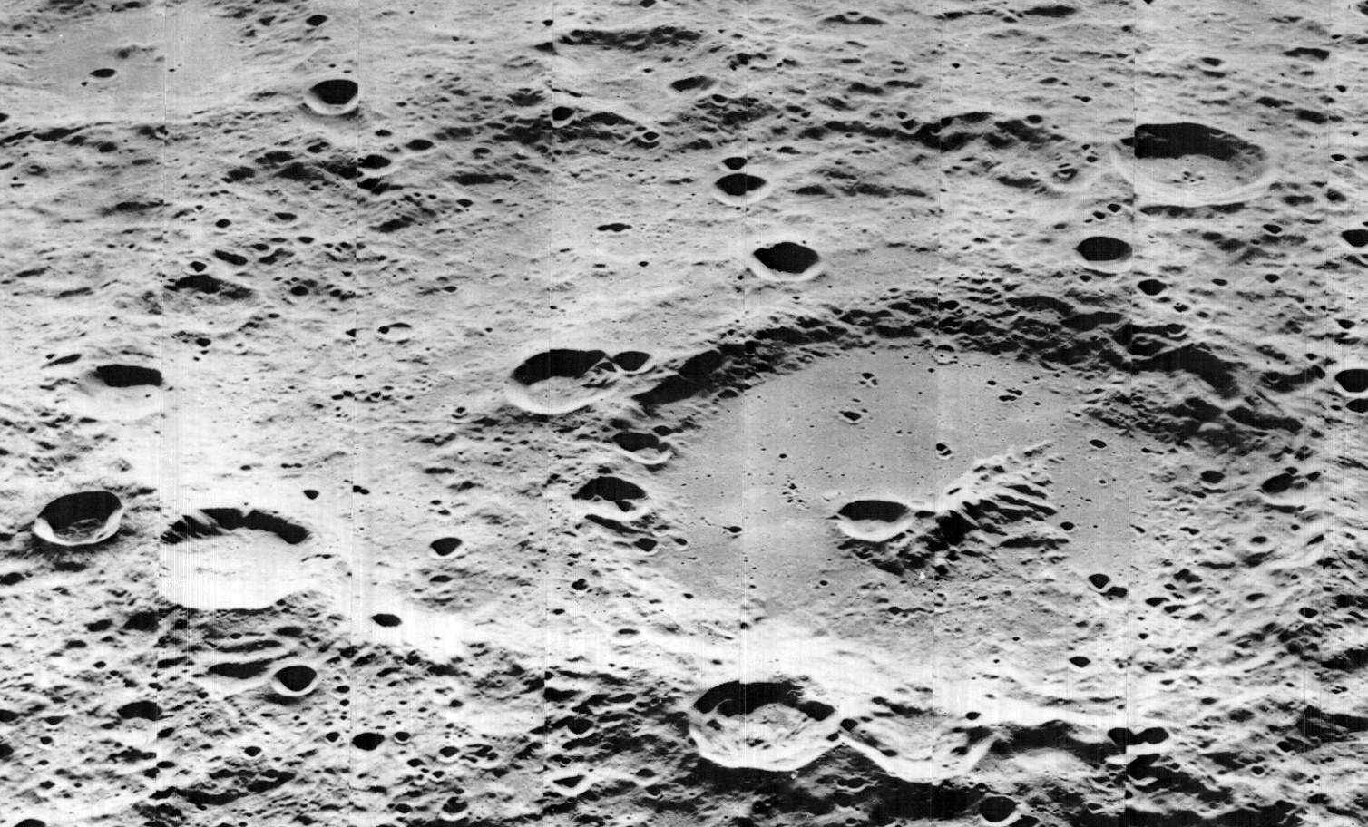 Oblique view of Harkhebi, on the moon, facing west. Harkhebi is the large, eroded crater filling most of the image. The smaller Fabry is in lower right.